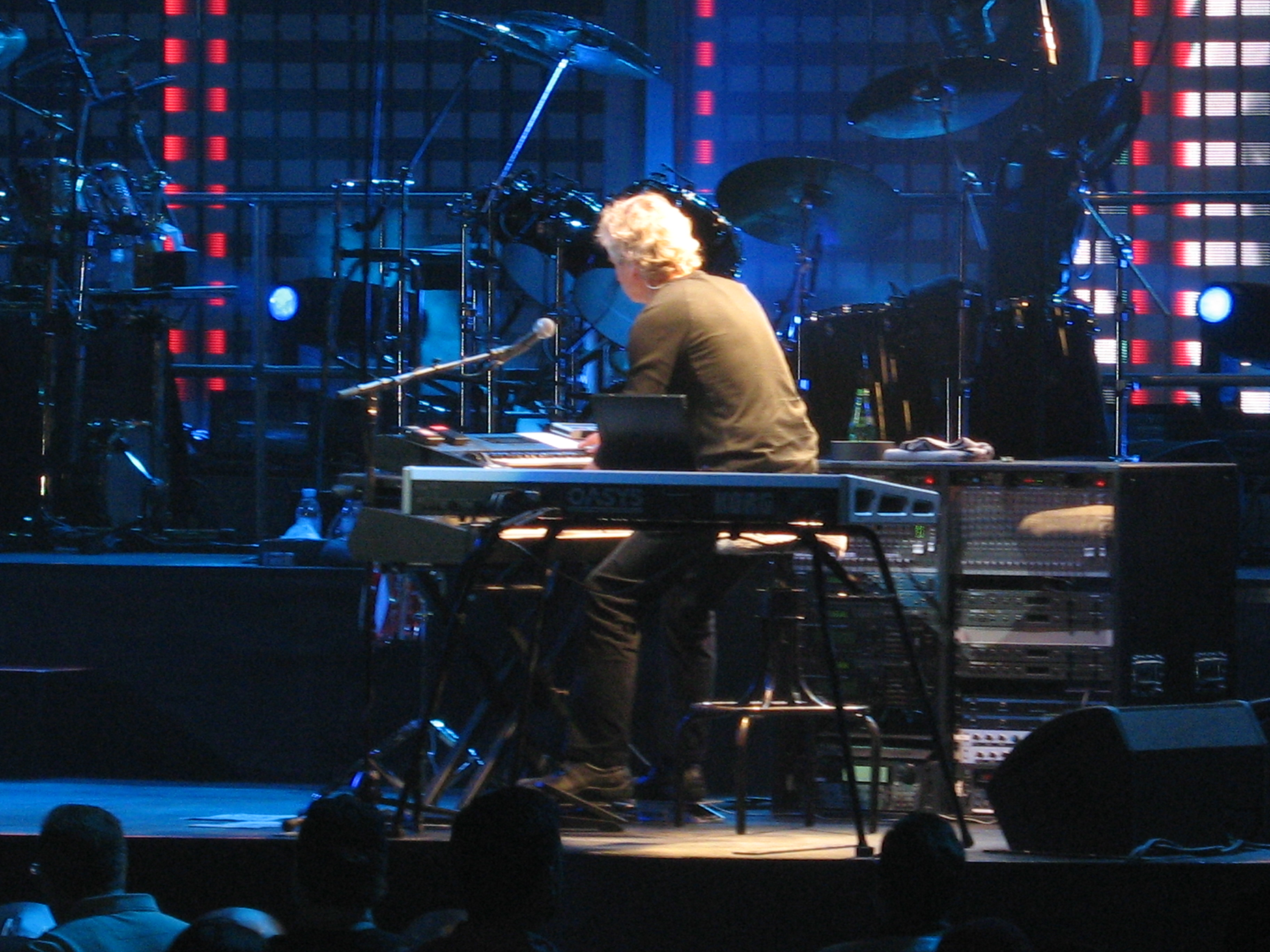 Genesis concert at the Verizon Center, Washington, D.C., USA. Tony Banks performing "In the Cage".